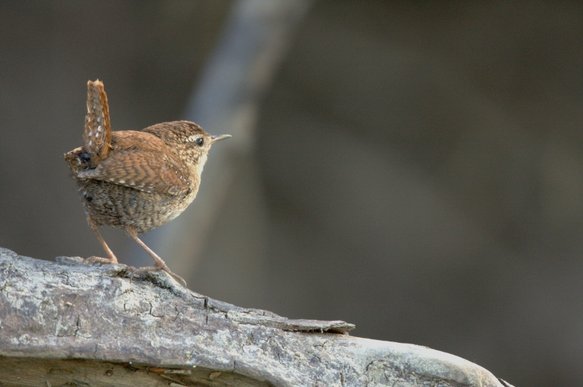 Wren Troglodytes troglodytes